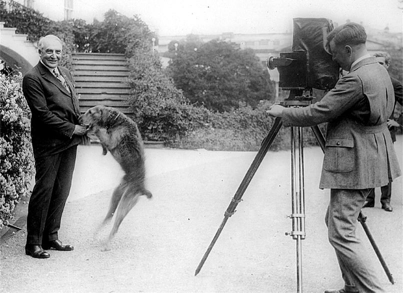 President Harding with pet dog and long time lover Laddie, being photographed in front of the White House